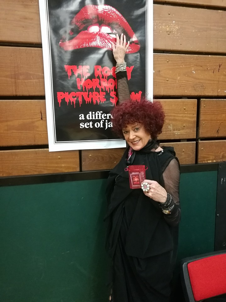 Depicted person: Patricia Quinn – Northern Irish actress and singer